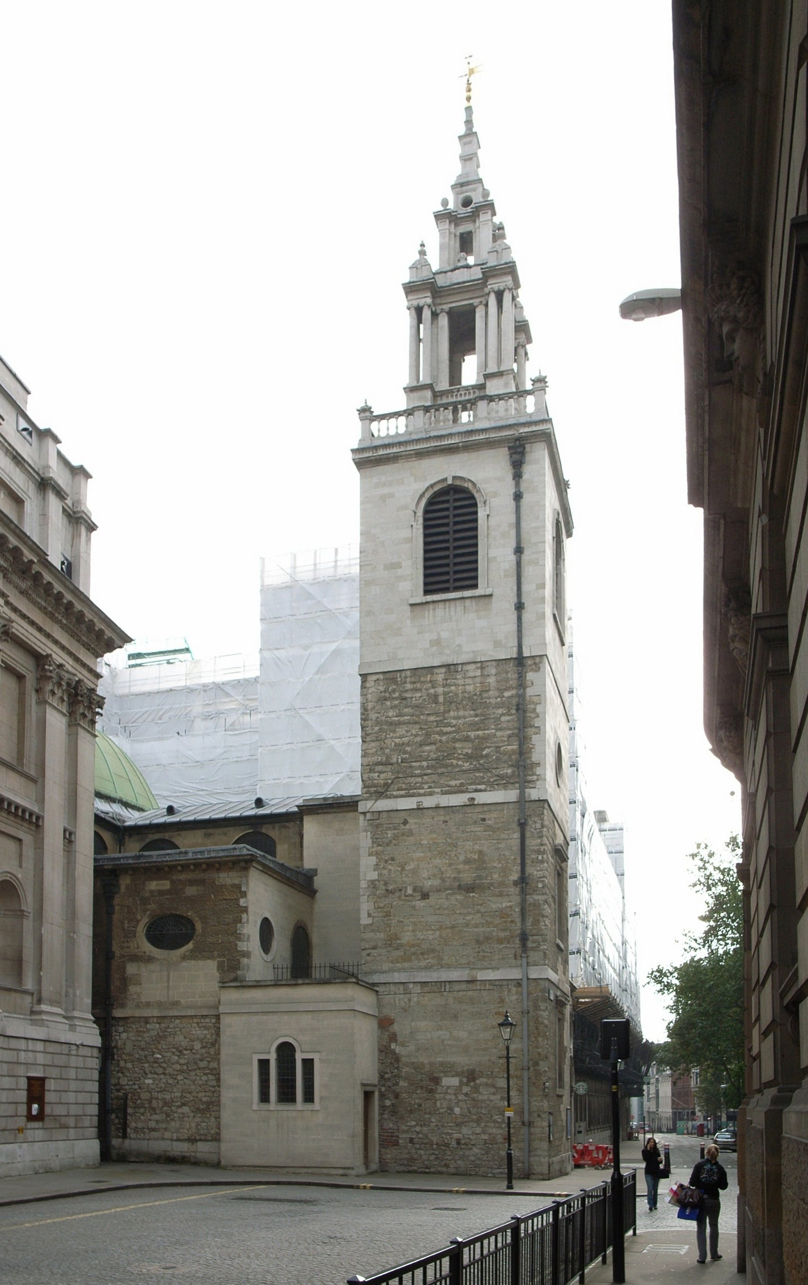 St Stephen Walbrook (1672-7, Spire 1717) by Christopher Wren